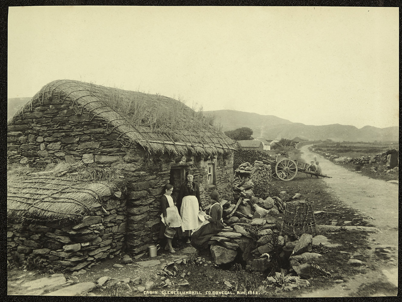 Creator: R. Welch (Photographer) Date: 1914 Original Format: Photographic Print Description: A cabin in Glencolumbkill, County Donegal PRONI Ref: D1403_2~024~A Copying and copyright: Please For Copy Orders, contact: For fees and charges